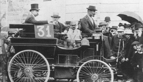 1894 paris-rouen motor race - kraeutler (peugeot 3hp) finished 6th